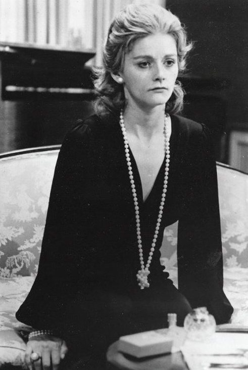 Still of Margot Kidder from The Reincarnation of Peter Proud (1975)